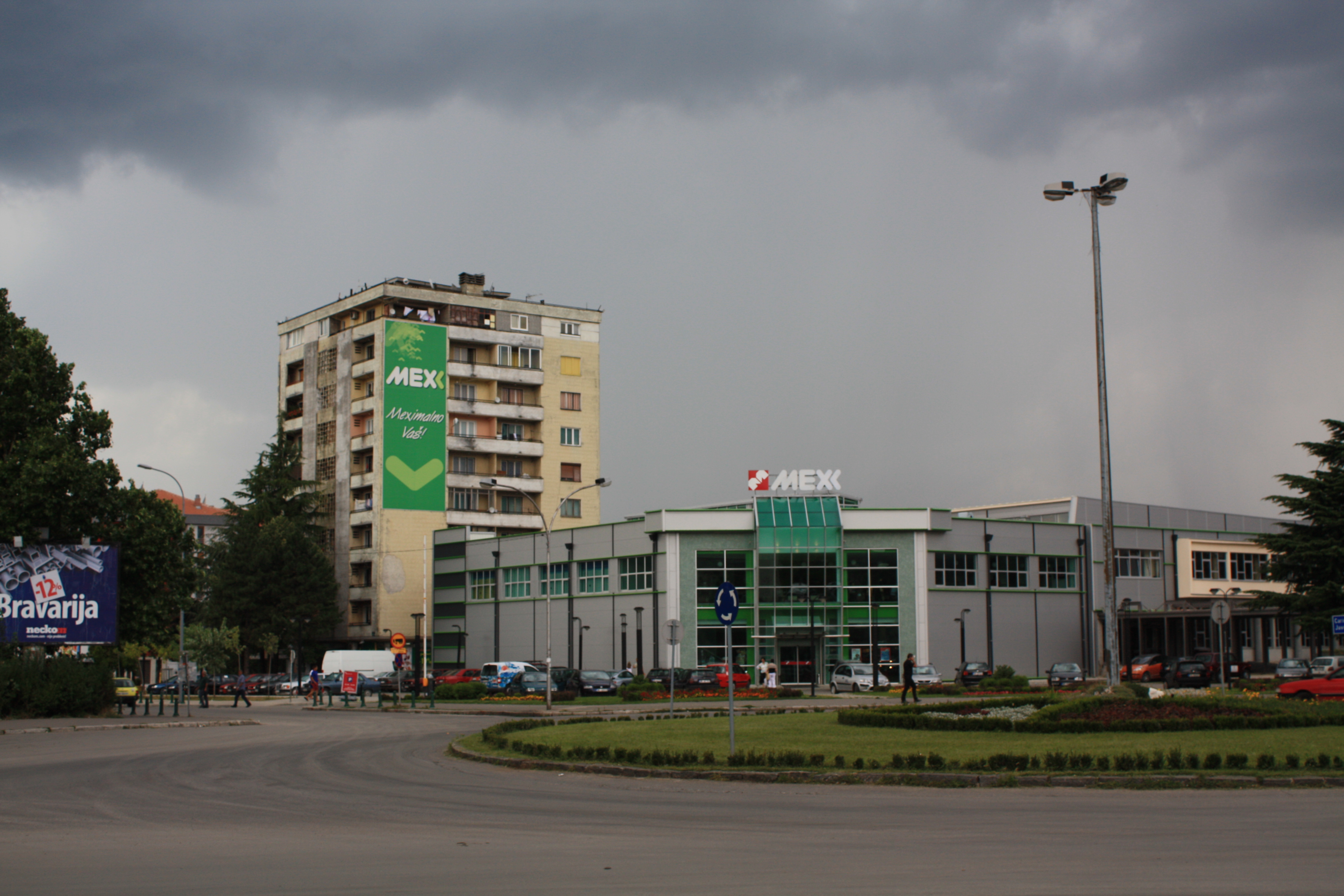 Nikšić, Montenegro - town centre